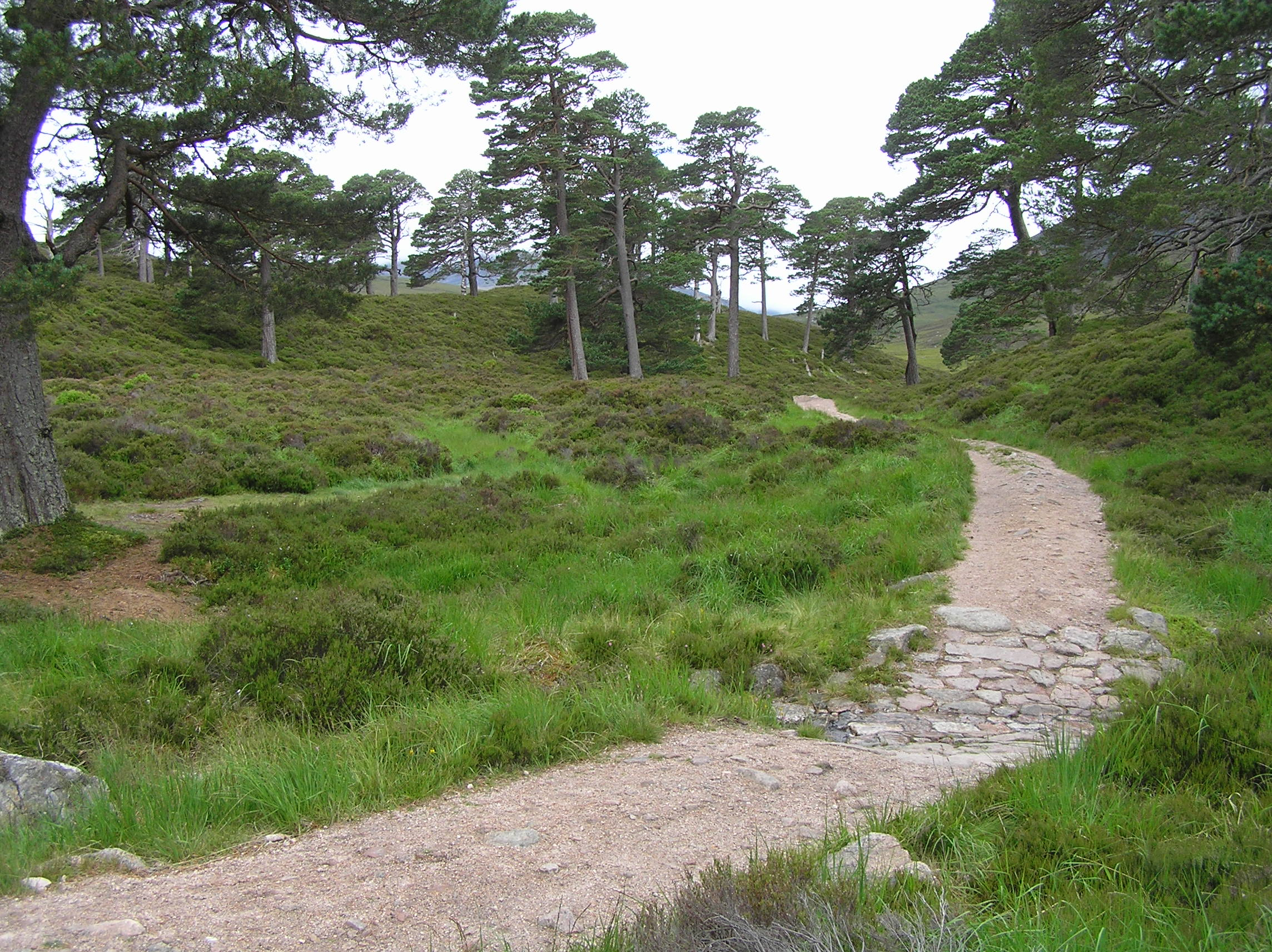 The track, looking west, through Glen Luibeg on Mar Lodge Estate (a National Trust for Scotland property)